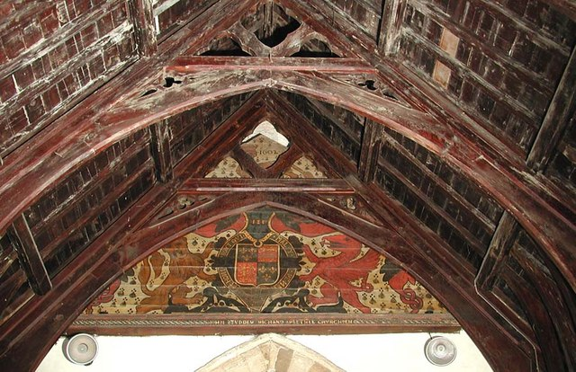 Church of England parish church St Martin, Sandford St Martin, Oxfordshire: royal arms dated 1602 of Queen Elizabeth I over the chancel arch